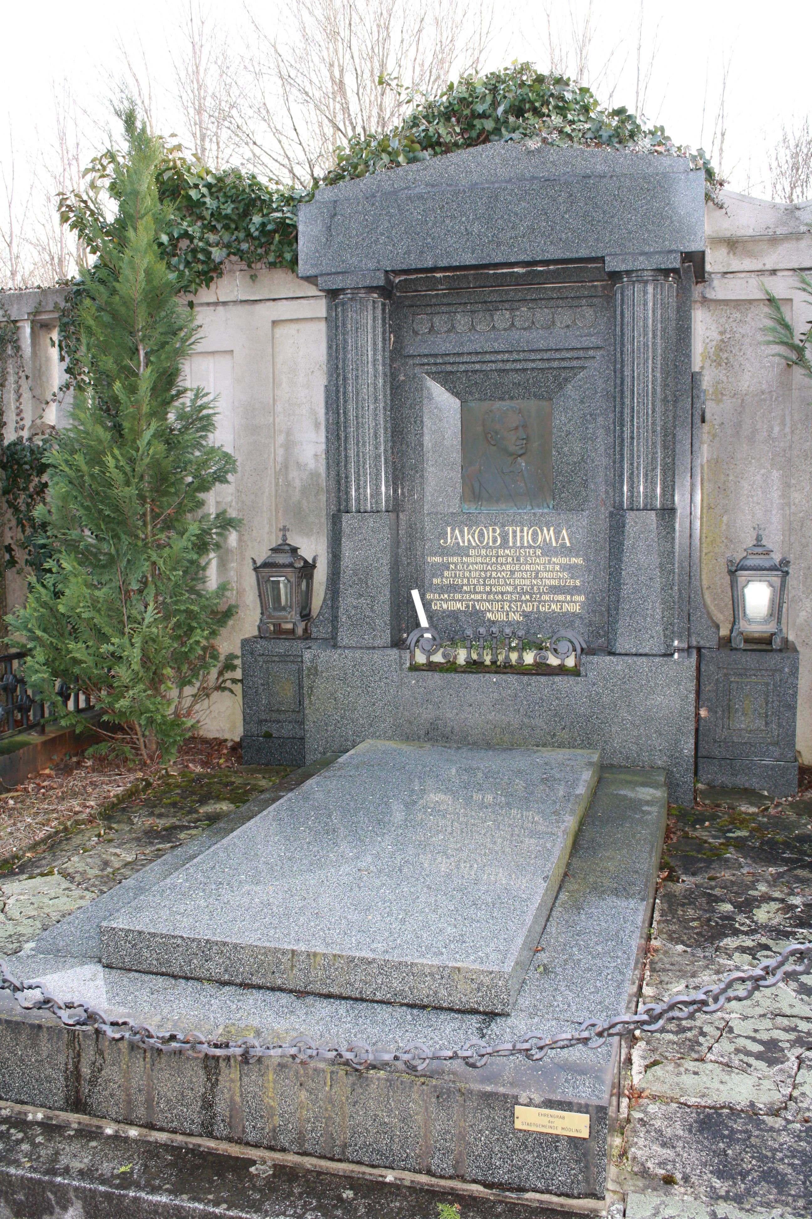 Grave of the austrian politician Jakob Thoma in Mödling